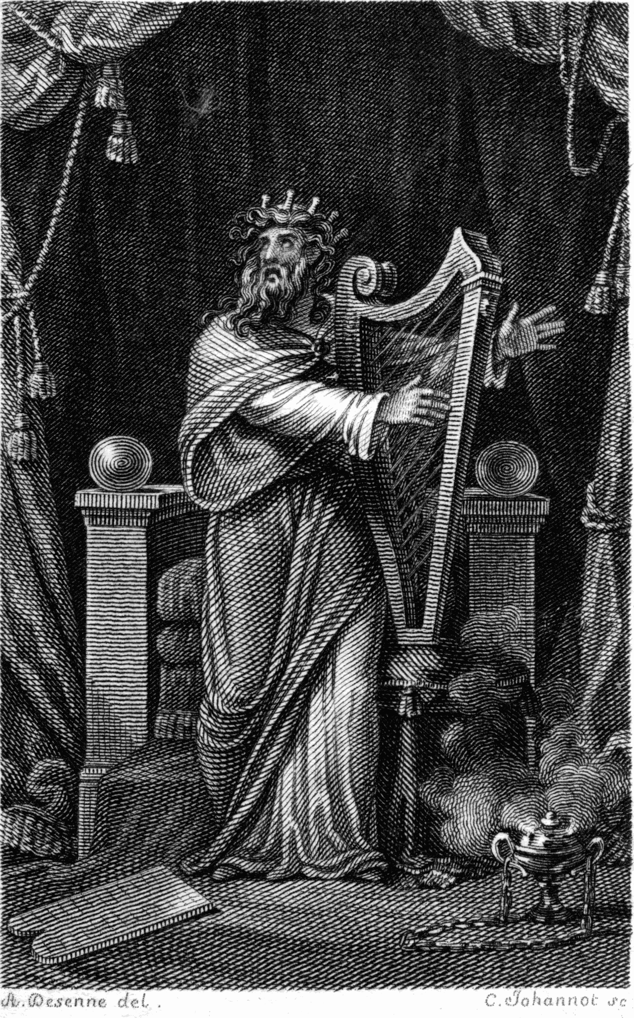 King David engraving from a front page of the French protestant psalm book of 1817 (1200dpiscan)